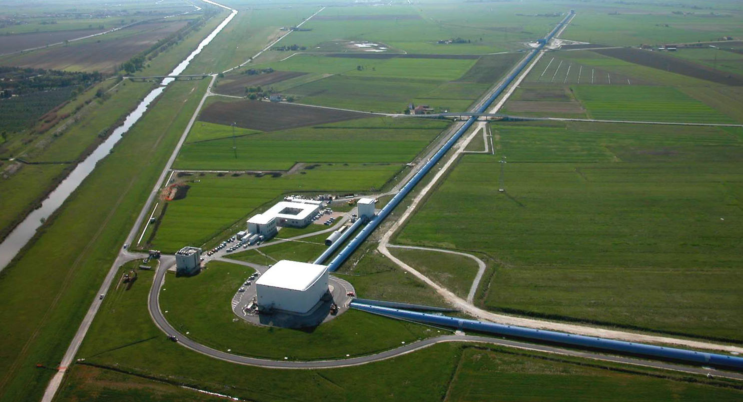 Aerial view of the Virgo site showing the Mode-Cleaner building, the Central building, the 3km-long west arm and the beginning of the north arm. The other buildings include offices, workshops, computer rooms and the control room of the interferometer.